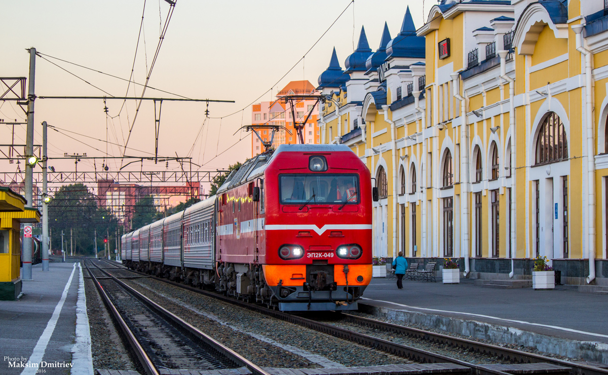 Electric locomotive EP2K-049 with passenger train № 609I Novokuznetsk — Tomsk Tomsk-1 station, Tomsk region, Russia